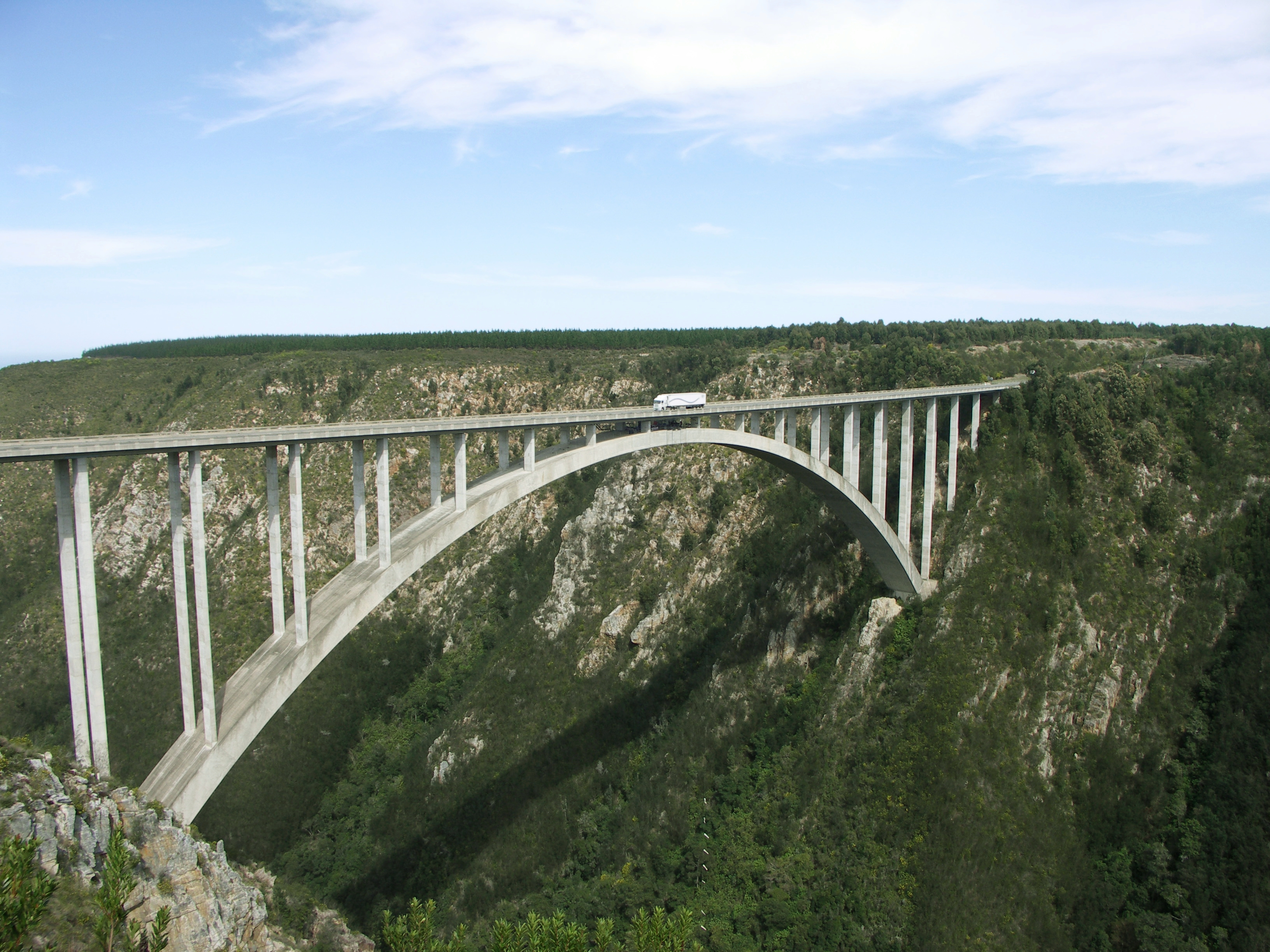 Bloukrans Bridge, Eastern Cape, South Africa